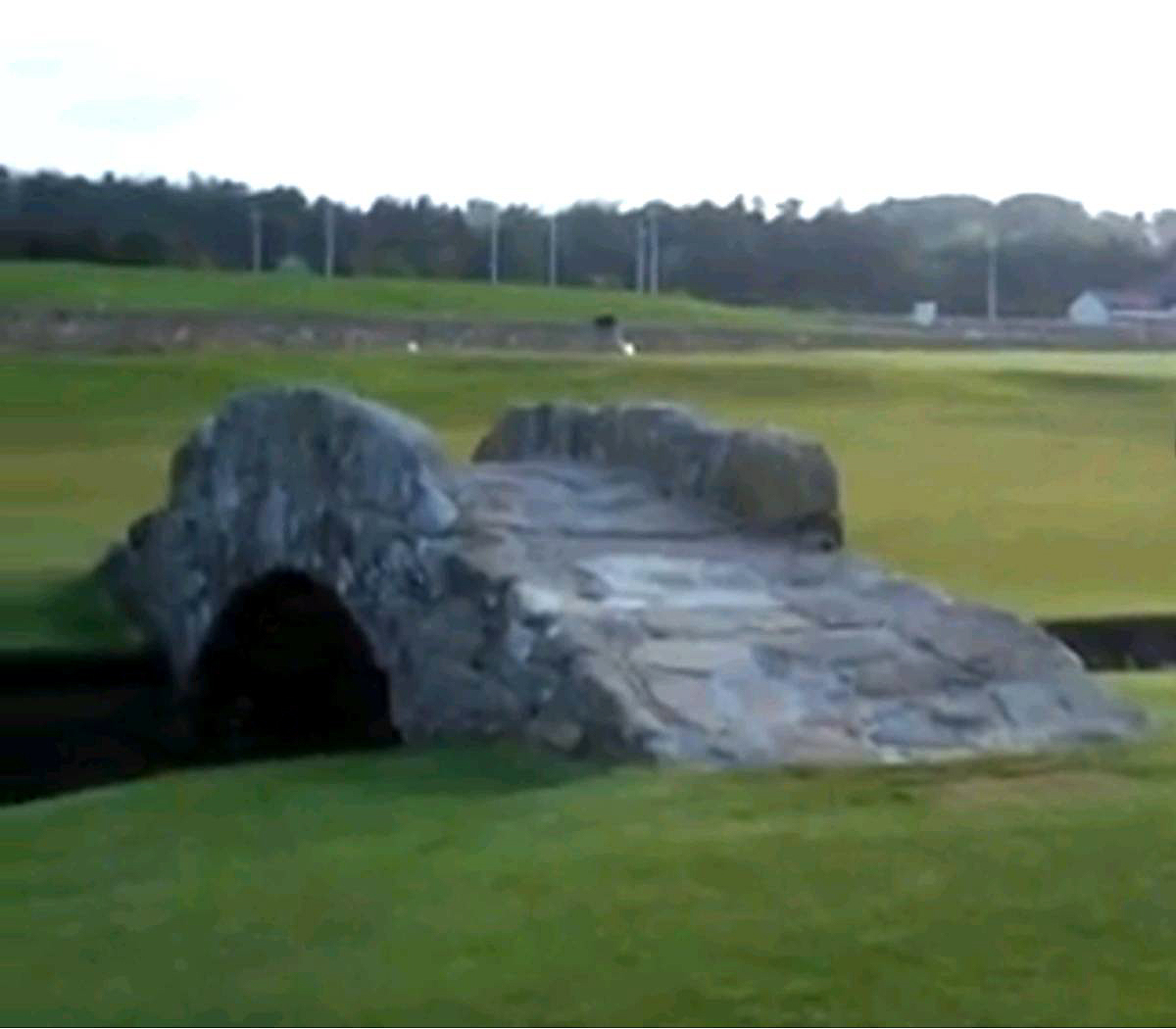 Photo of the Swilcan Bridge, Michael Cikraji, Scotland.